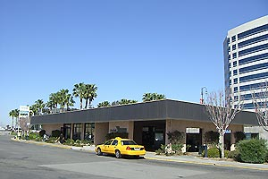 The front of the former Anaheim Amtrak Station